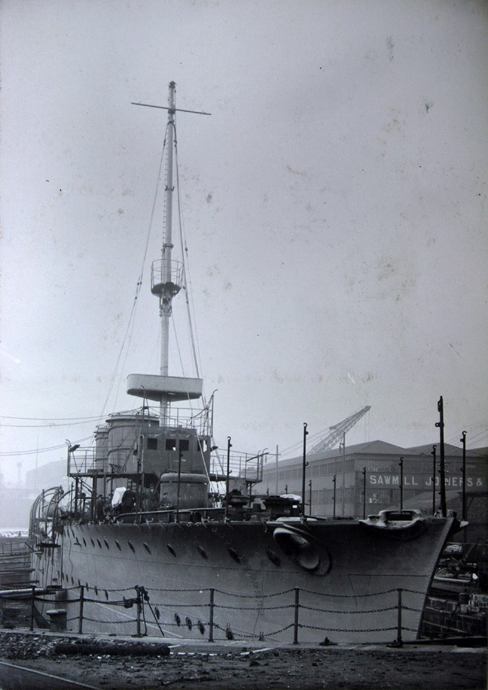 HMS Champion in dry dock at the Hawthorn Leslie shipyard, Hebburn, 5 June 1915 (TWAM ref. 4471/3). HMS Champion was a C-class light cruiser and one of the first vessels of the Light Cruiser Squadron in action at the Battle of Jutland. The Rivers Tyne and Wear were responsible for building many vessels, which served Britain during the First World War. This set remembers some of those warships that took part in the Battle of Jutland from 31 May to 1 June 1916. During the battle over 6,000 British sailors lost their lives and 14 Royal Naval vessels were sunk. The losses included the battlecruisers HMS Queen Mary and HMS Invincible, as well as the destroyers HMS Shark, HMS Sparrowhawk and HMS Turbulent, all built on Tyneside. Their memory lives on. (Copyright) We're happy for you to share these digital images within the spirit of The Commons. Please cite 'Tyne & Wear Archives & Museums' when reusing. Certain restrictions on high quality reproductions and commercial use of the original physical version apply though; if you're unsure please